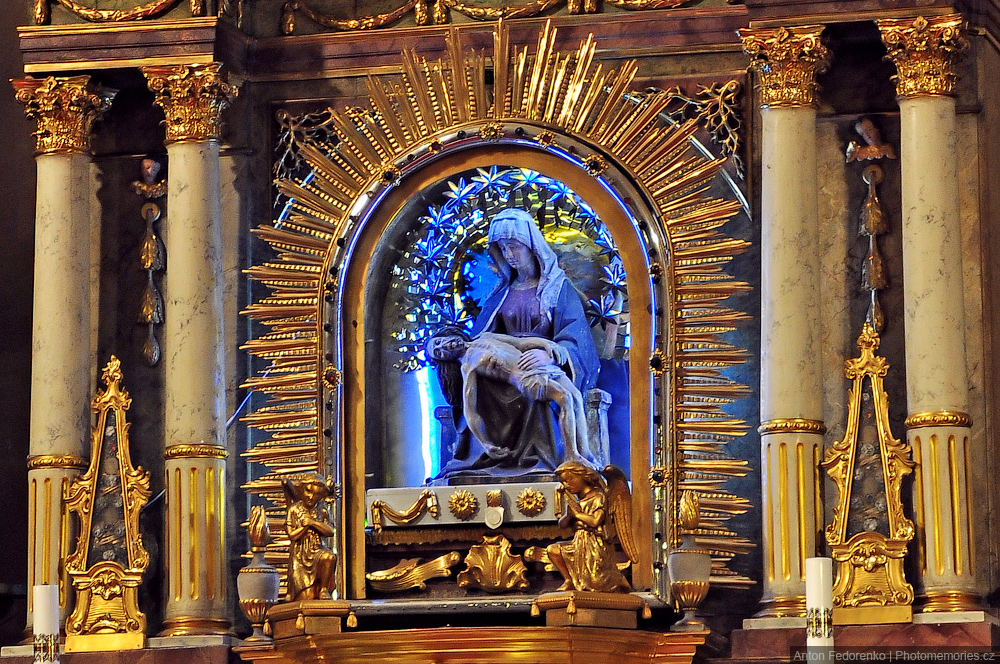 Statue of Pieta in St. James church in Prague